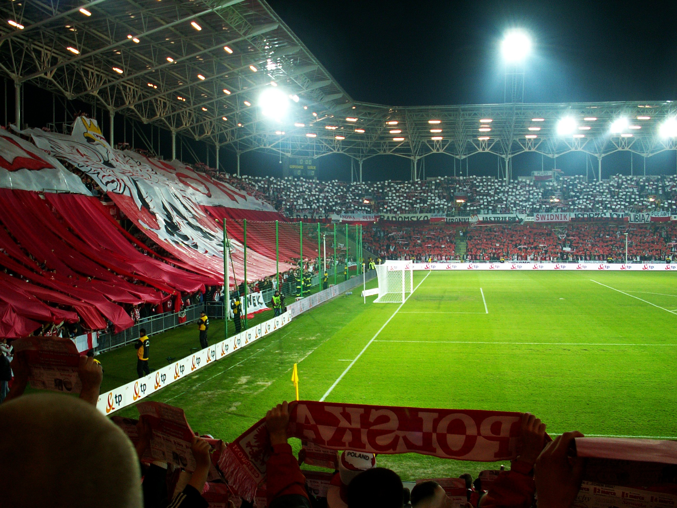 UEFA Euro 2008 qualifying - Poland vs Armenia in Kielce (Poland)